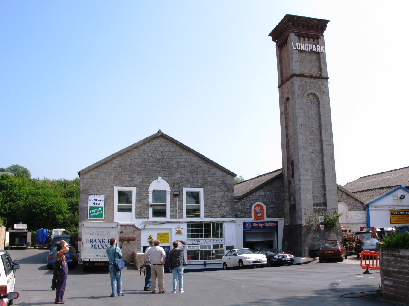 The old South Devon Railway atmospheric engine house at Torquay, Devon. The atmospheric traction was never brought into use at Torquay; the engine house subsequently saw use as a pottery and at the time of the photogrpah is a vegetable warehouse.